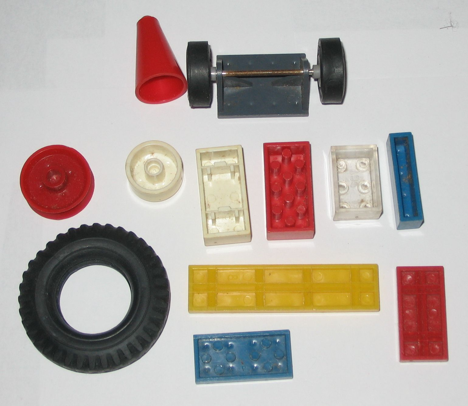 The underside of the different PEBE bricks. It's clear to see that two different systems were used.